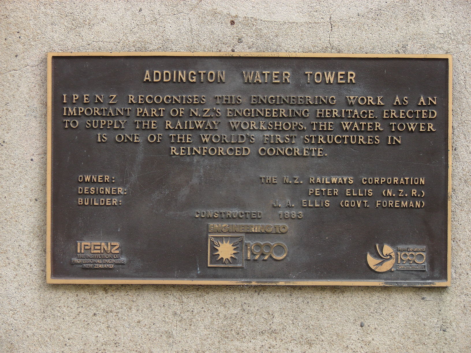 Institution of Professional Engineers of New Zealand dedication plaque.